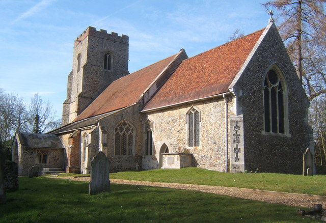 Church of St Mary in Brent Eleigh, Suffolk, England. A Grade I listed medieval church.